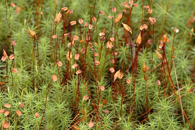 Picture taken in Commanster, Belgian High Ardennes . Species: Polytrichum commune